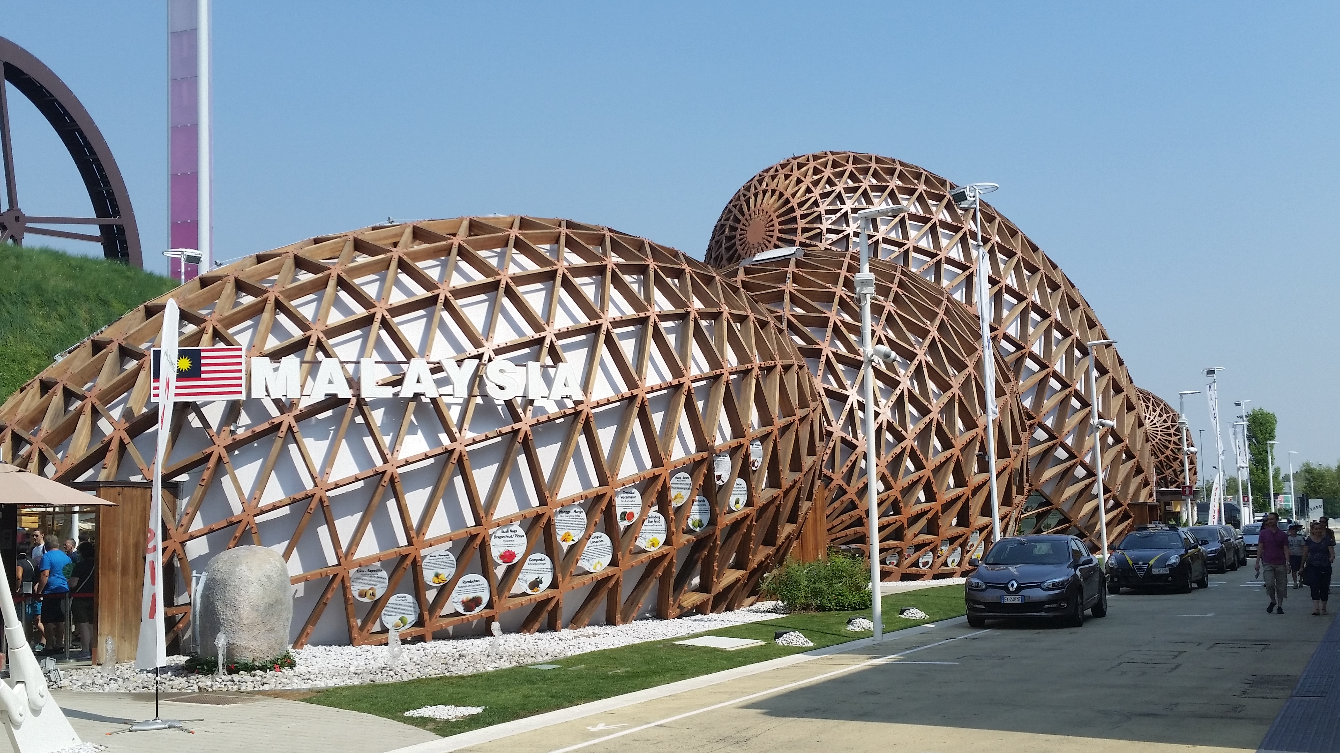 Pavilion of the Expo 2015 located in Milano (Italy)